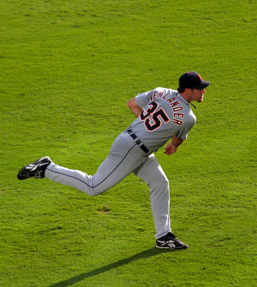 Detroit Tigers, Justin Verlander, Pitcher